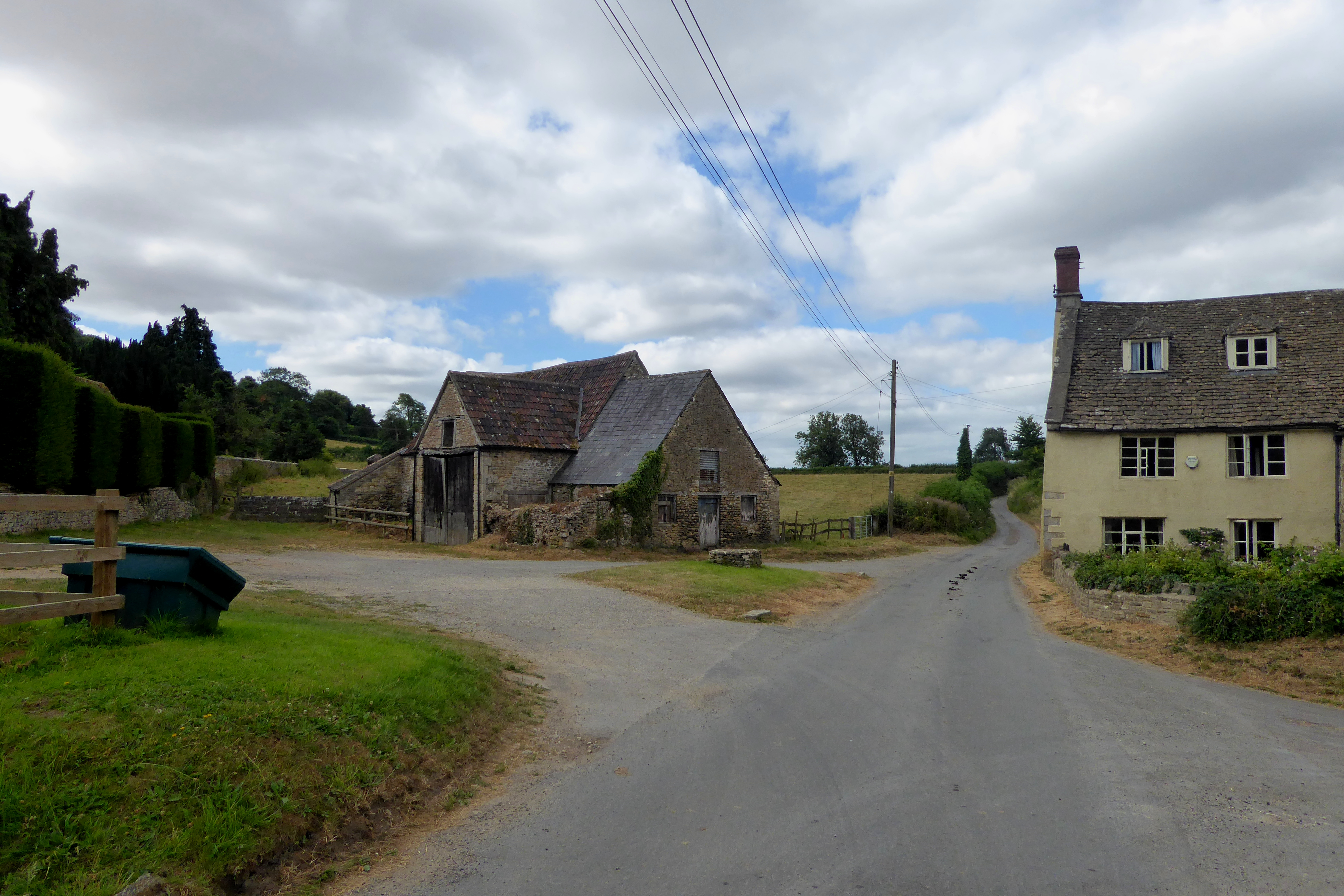 The center of Hawkesbury, a hamlet in Gloucestershire.